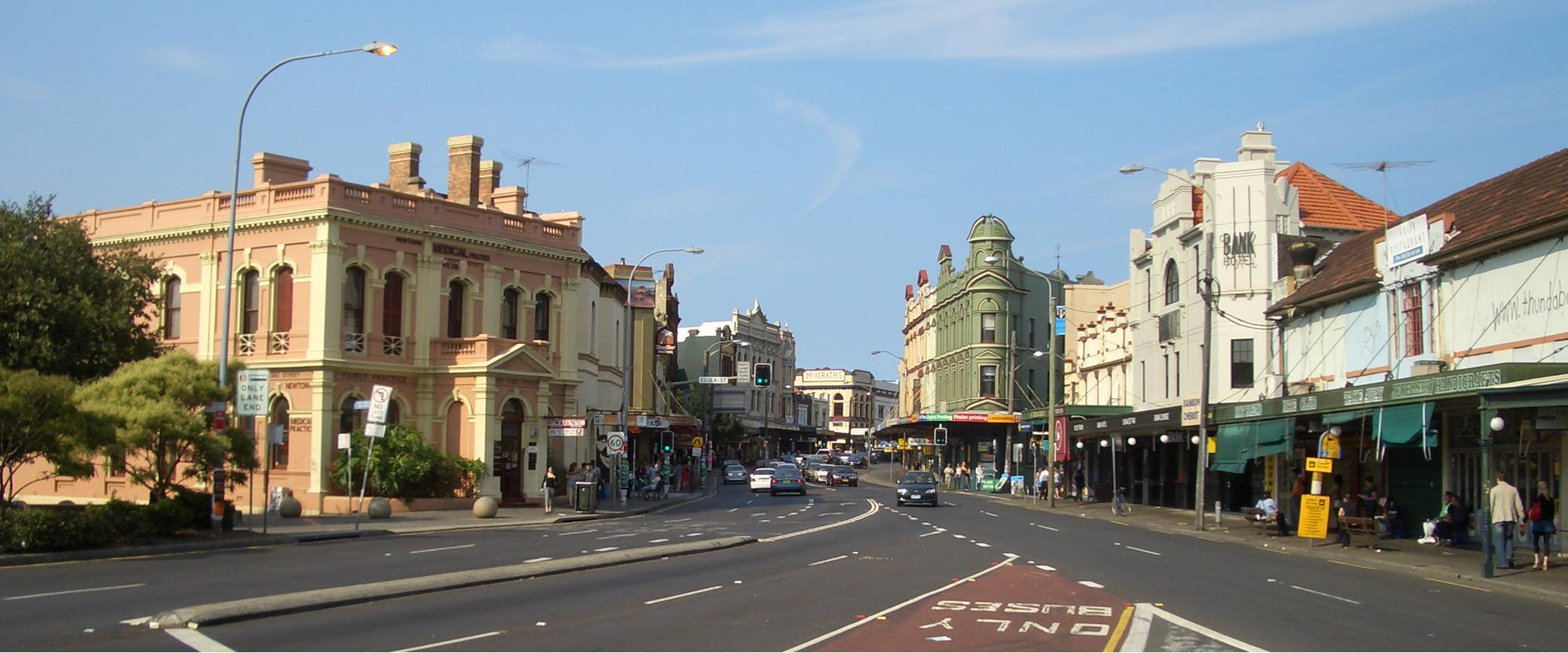 King_Street, Enmore Road intersection at Newtown